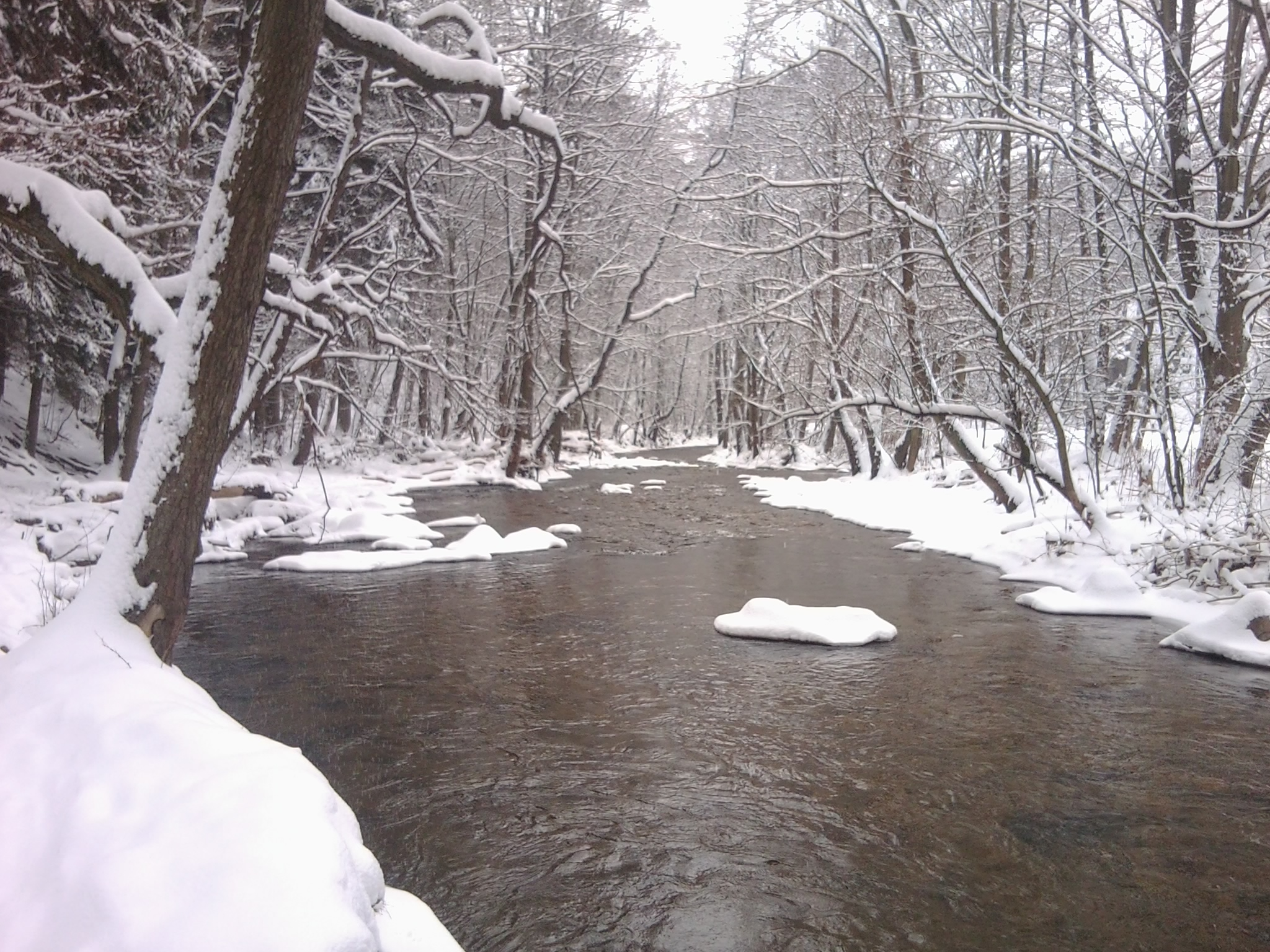 Rolava river near Nová Role municipality in winter